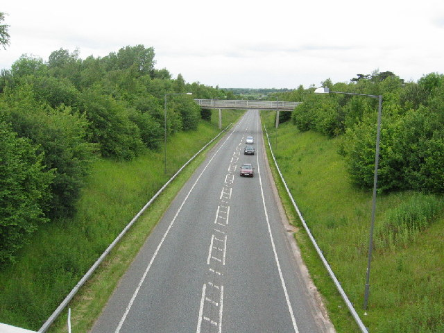 A49(T) taken from a bridge on B5153. Weaverham "bypass" one lane in each direction built a few years ago to reduce traffic - the old road had been renumbered B5142.